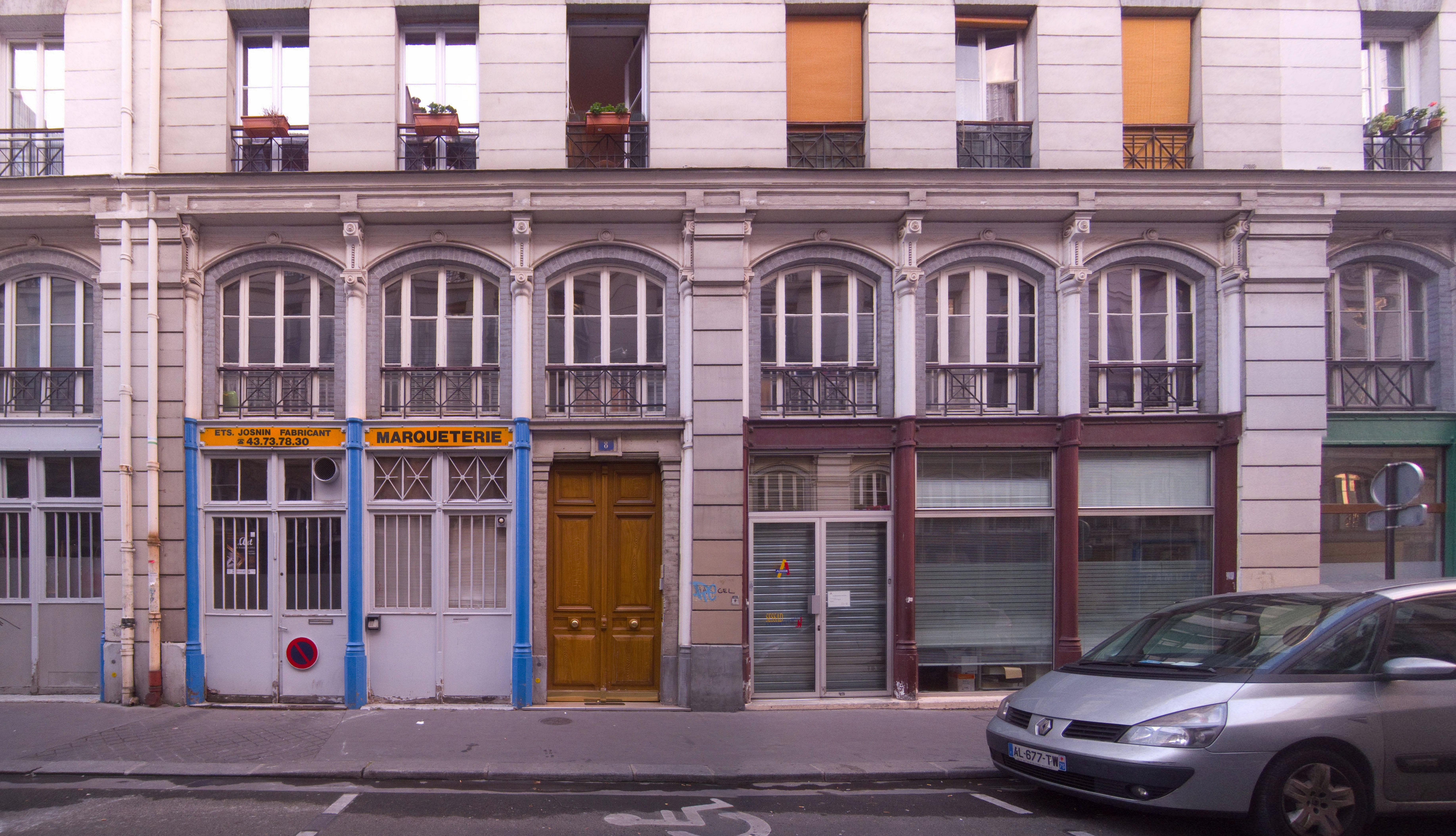 Lower floors of the building, 8 rue des Immeubles-Industriels, Paris XIe arrondissement, France.